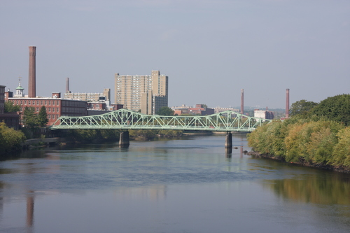 Lowell skyline viewed from Hunts Falls Bridge